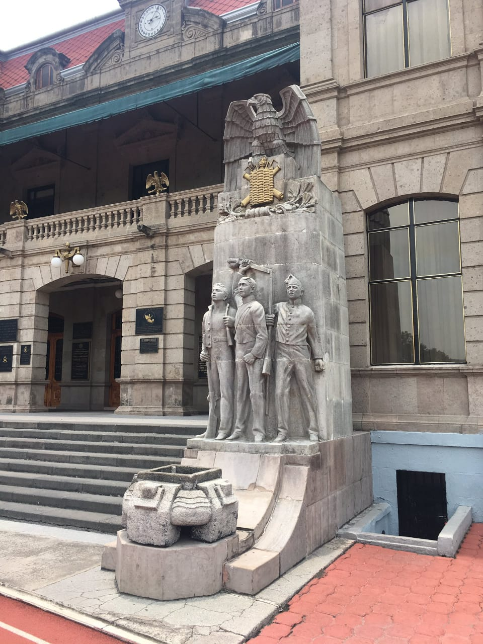 Monumento a los Niños Héroes en el Heroico Colegio Militar de Popotla. Proyecto y obra del Arq. Vicente Mendiola y el escultor Ignacio (Nacho) Asúnsolo, 1926